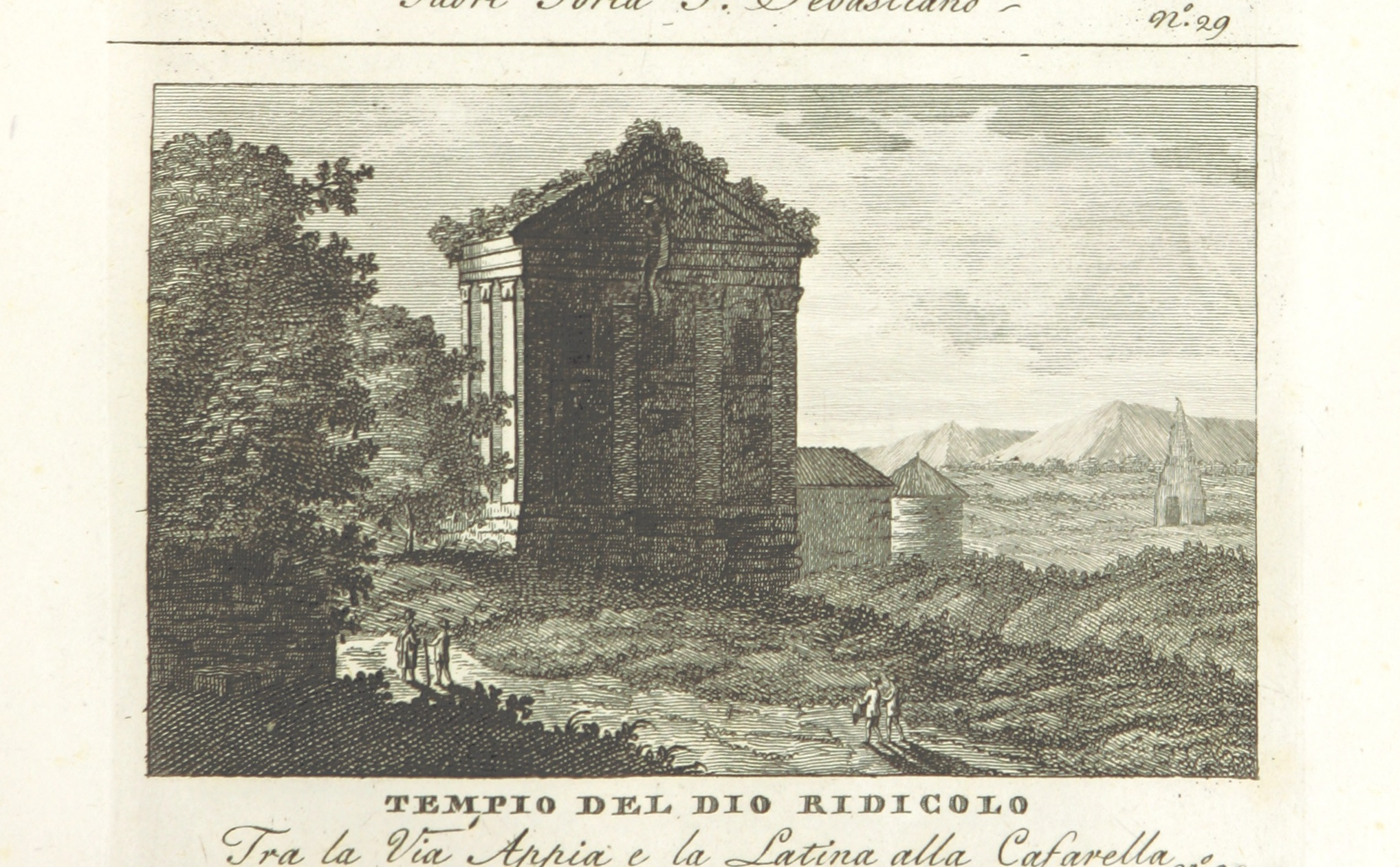 Title: "Vedute antiche e moderne le più interessanti della città di Roma, incise da vari autori, in numero 100. (Explication ... rédigée ... par E. Piale.)", "Appendix. Topography" Contributor: PIALE, Stefano. Author: Rome (Italy) Shelfmark: "British Library HMNTS 10131.h.1." Page: 51 Place of Publishing: Rome Date of Publishing: 1820 Publisher: V. Monaldini Issuance: monographic Identifier: 003147404